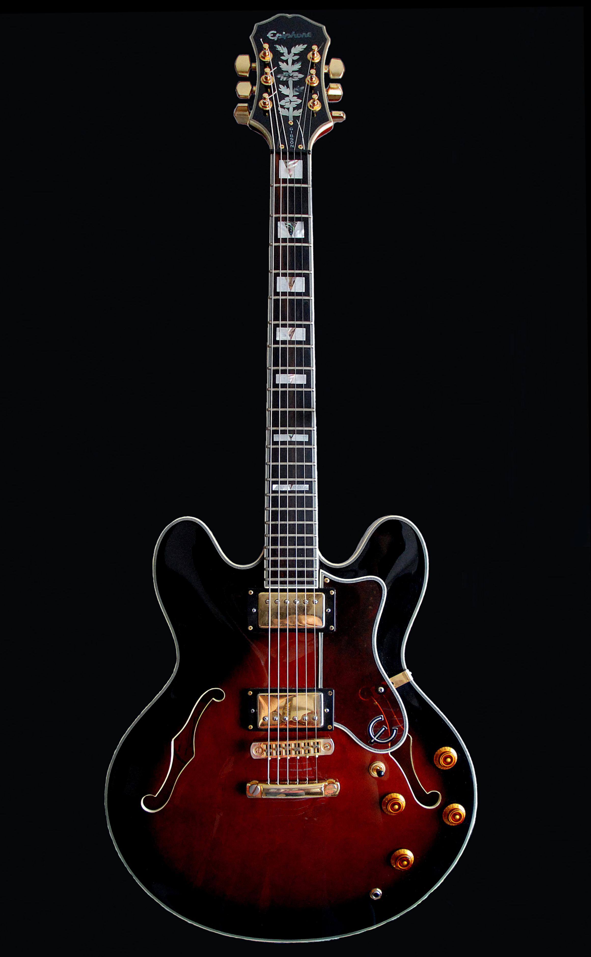 Epiphone Sheraton II. Paul Hermans 27 nov 2004 16:49 (CET)